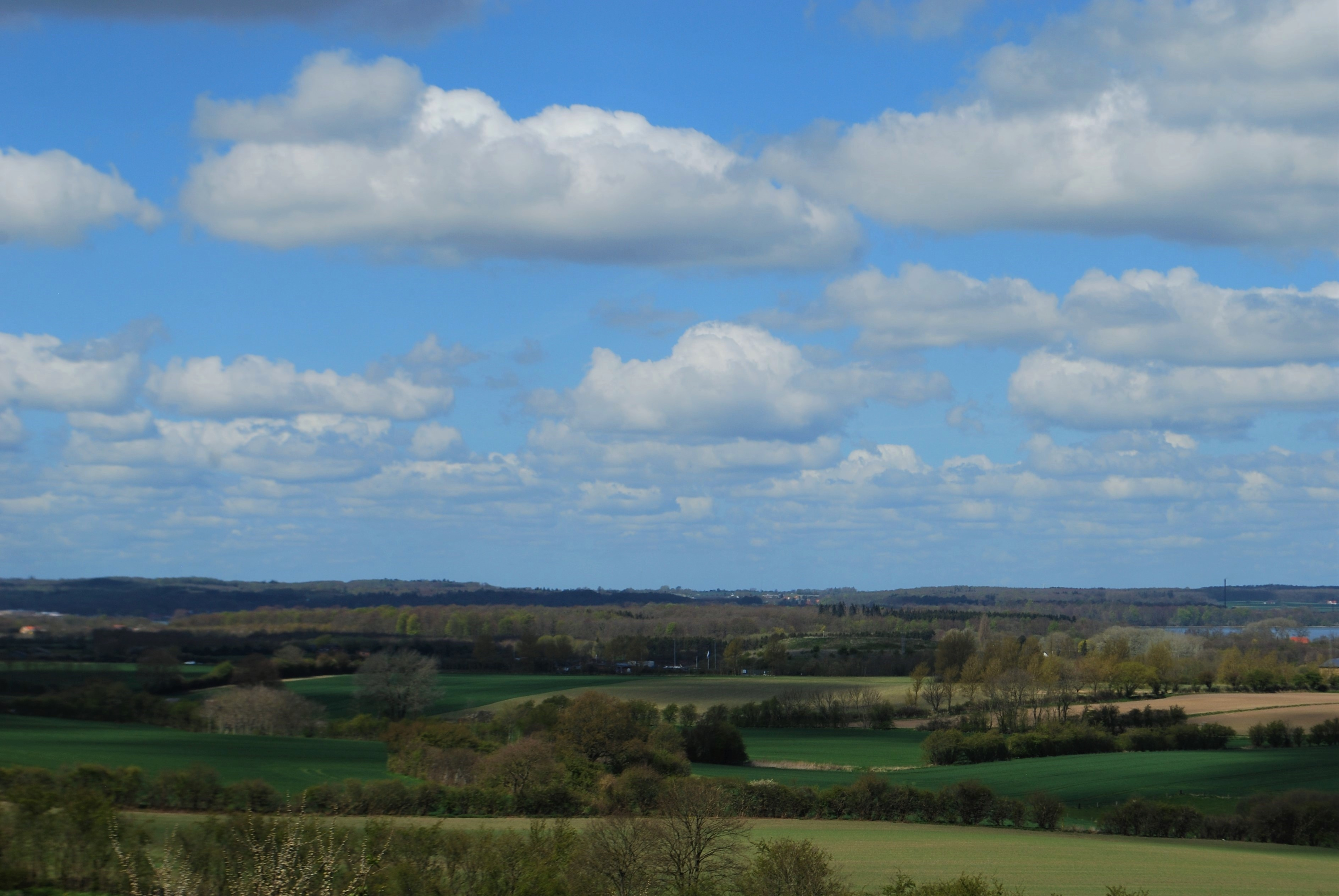 Skodsbøl Skov, Broager Land, Denmark